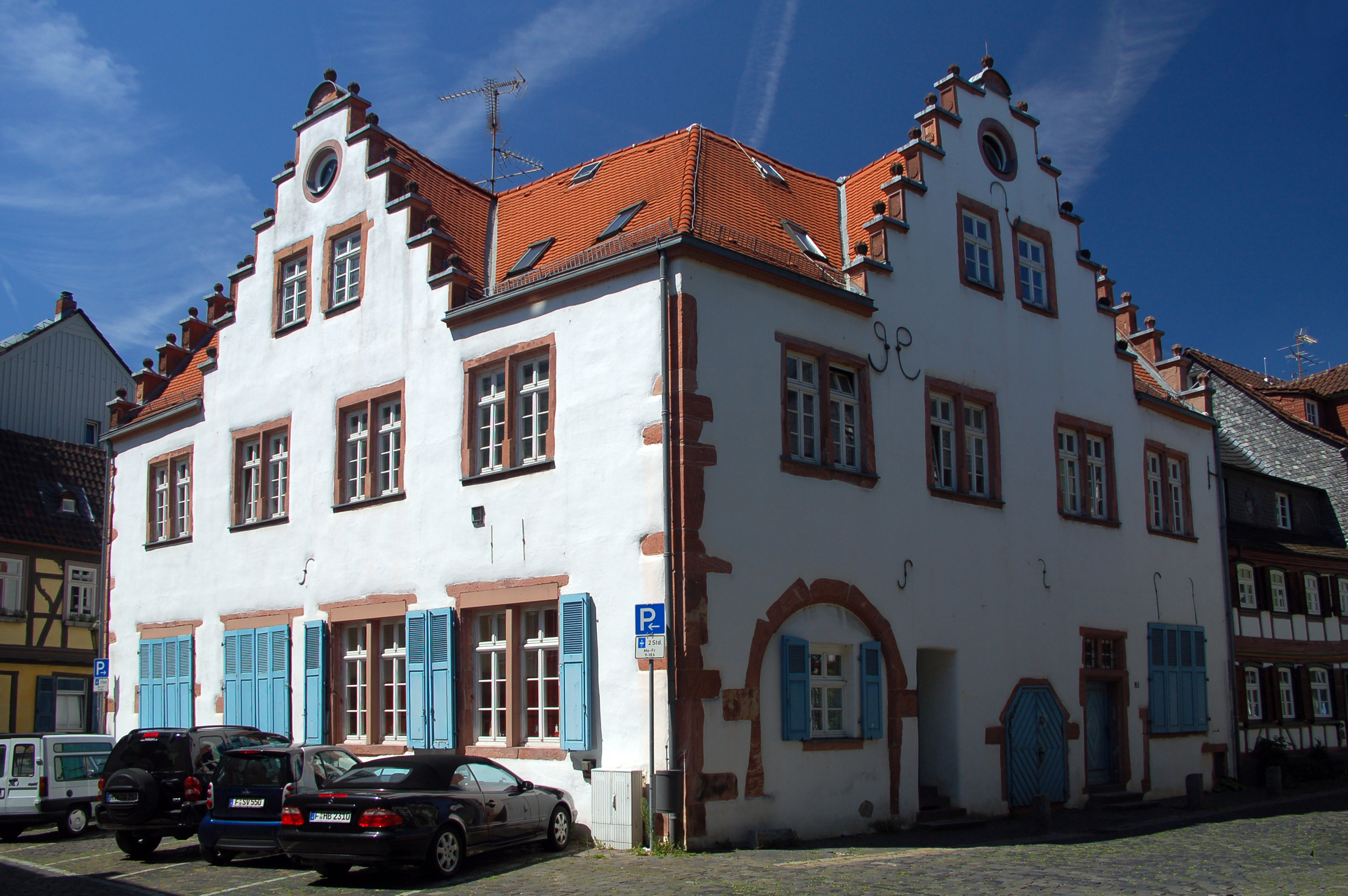 Old town hall Höchst on Main, Allmeygang 8